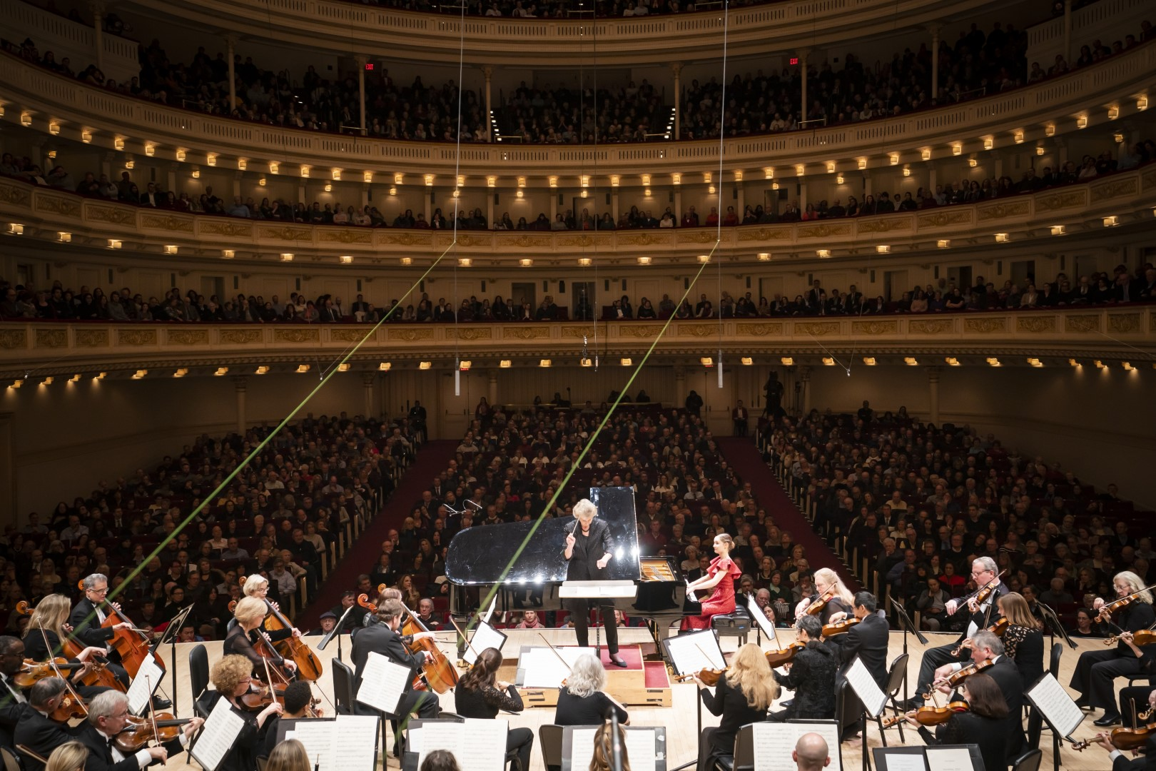 Alma Deustcher making debut at Carnegie Hall with Jane Glover conducting the Orchestra of St. Luke's, 12/12/19. Photo by Chris Lee